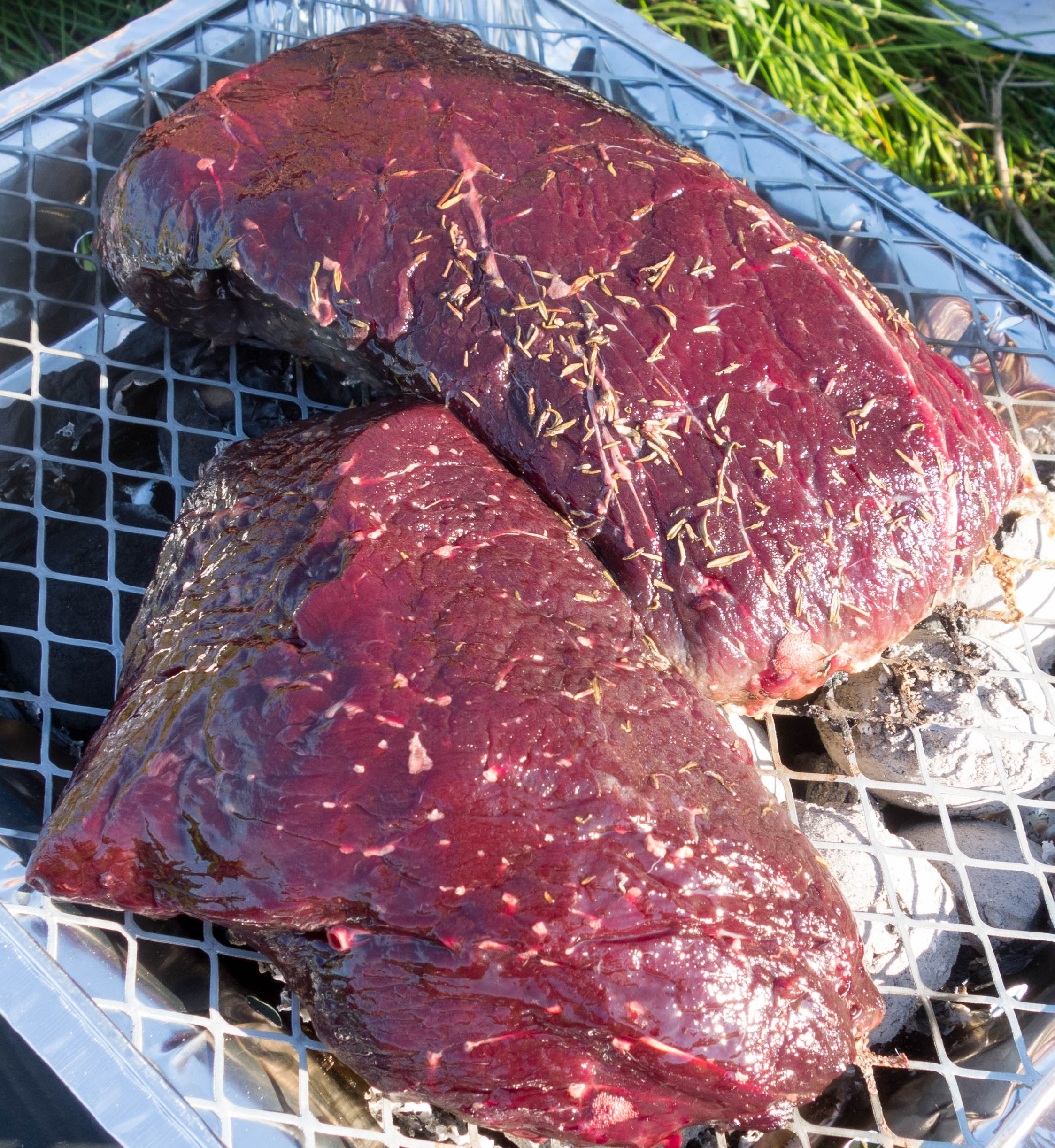 Jonas, my Norwegian neighbor grilled it up